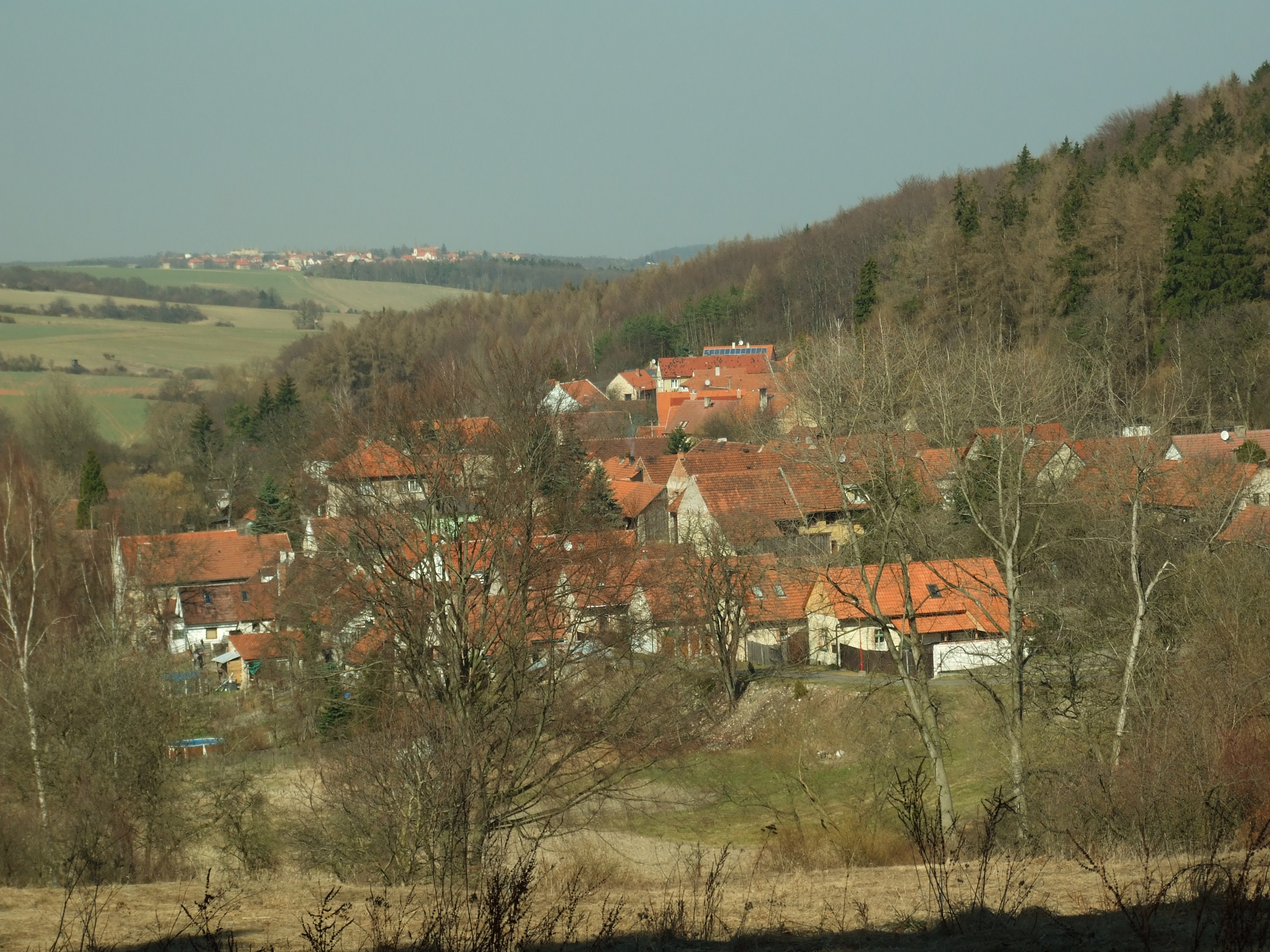 Village of Třeboc seen from southern slope, Rakovník District. Central Bohemian Region, CZ